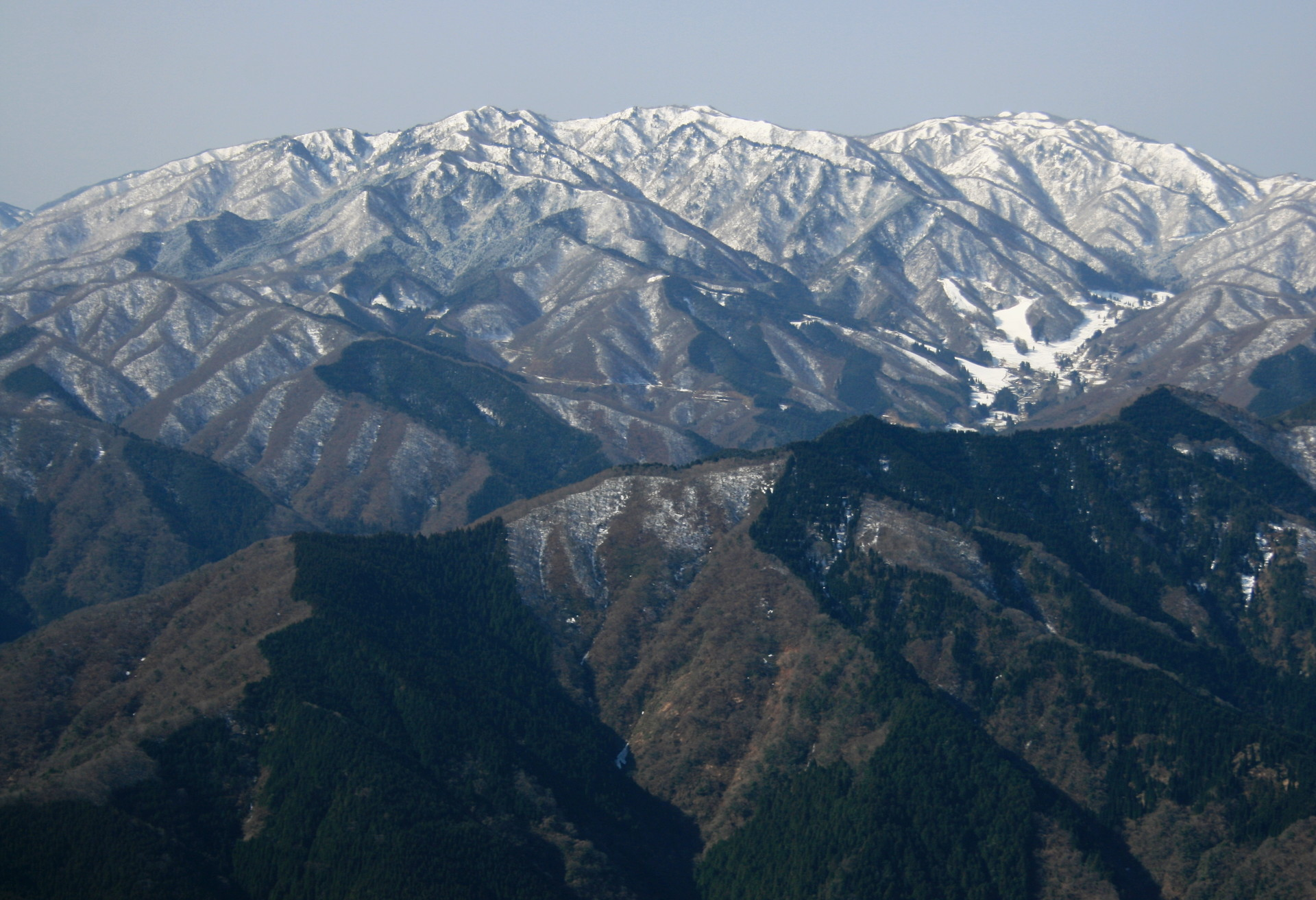 Mount Kaiduki from Mount Odugongen